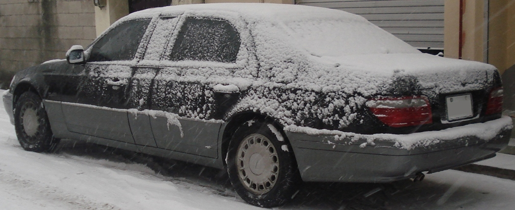 SsangYong Chairman Limousine